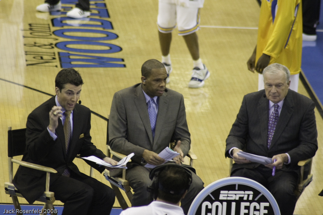 From left to right, Reece Davis, Hubert Davis, Digger Phelps.